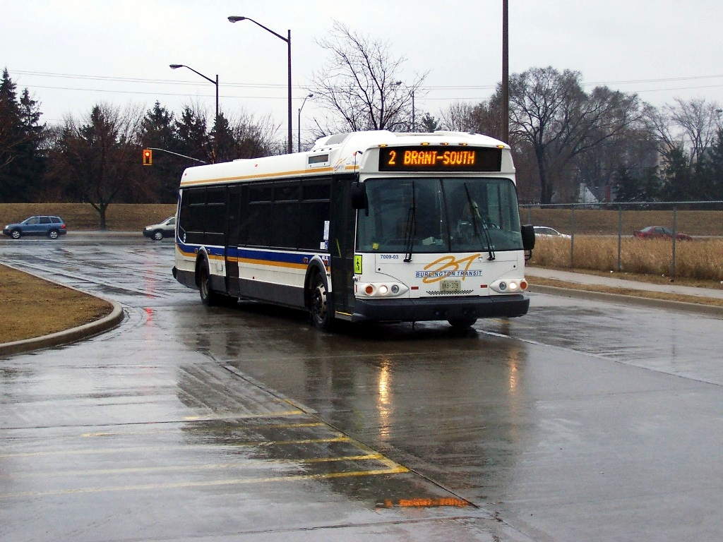 Burlington Transit (ON) New Flyer D40I Invero # 7009-03 at the Burlington GO Station on Route 2, Burlington, Ontario, Canada